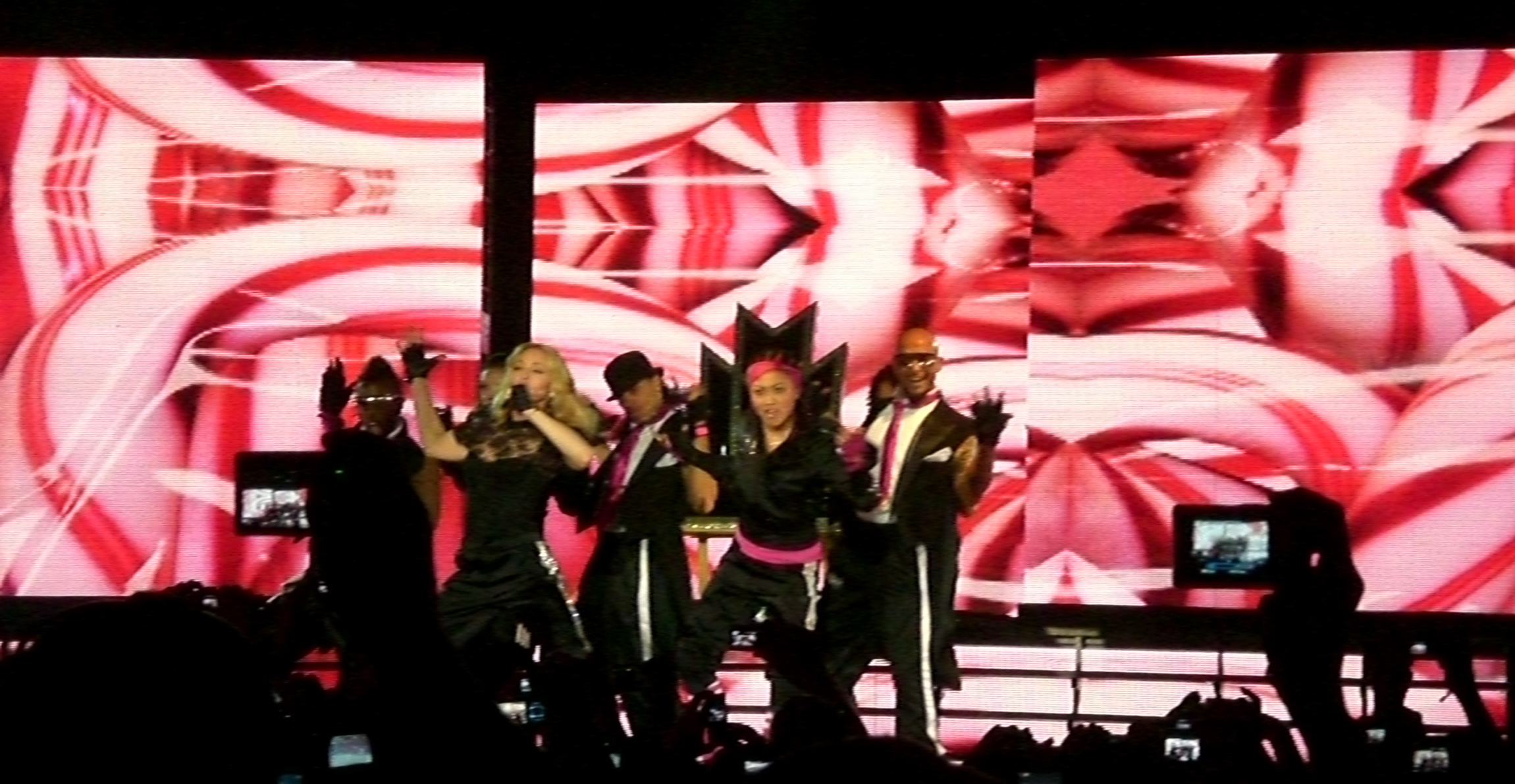 Madonna, Radio 1's Big Weekend, Mote Park, Maidstone